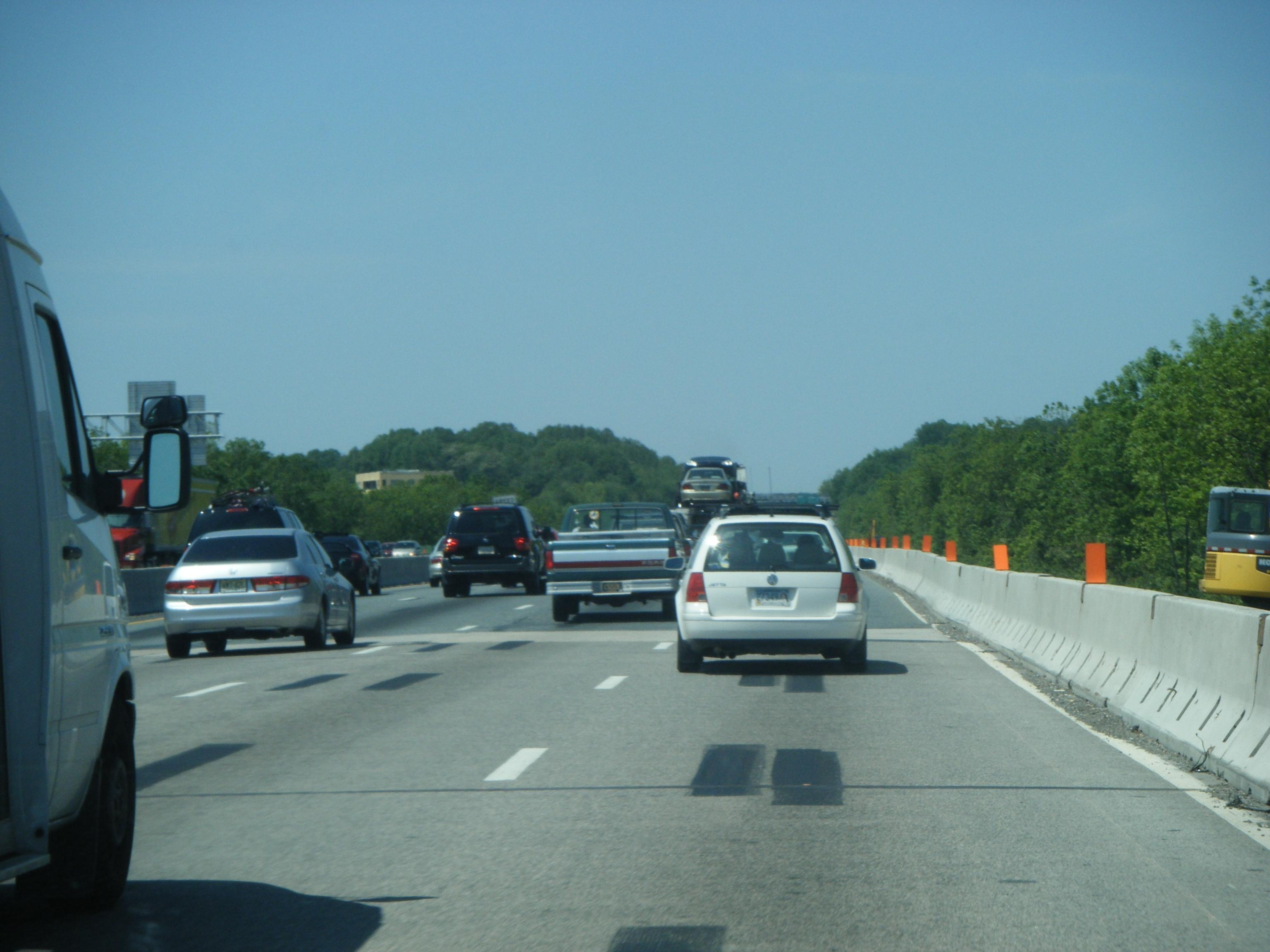 Southbound Interstate 95 (Delaware Turnpike) through the Churchmans Marsh in Christiana, Delaware.